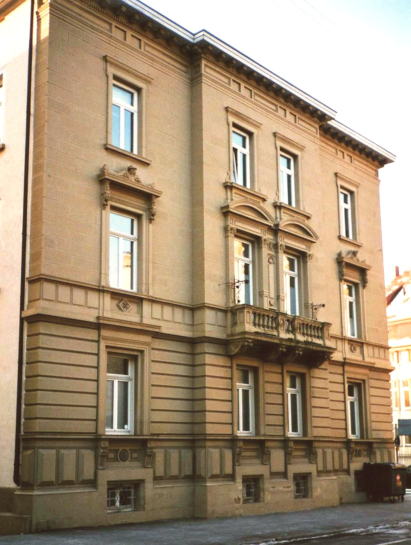 Heilbronn